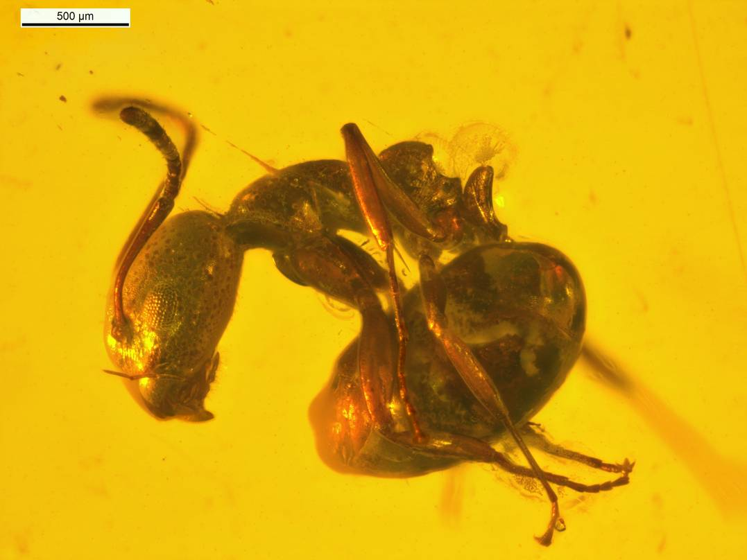 Profile view of a Dolichoderus nanus worker. Middle Eocene; Baltic amber, Samland Peninsula, Kalingrad, Russia Naturhistorisches Museum, Vienna, Austria. Specimen FANTWEB00011